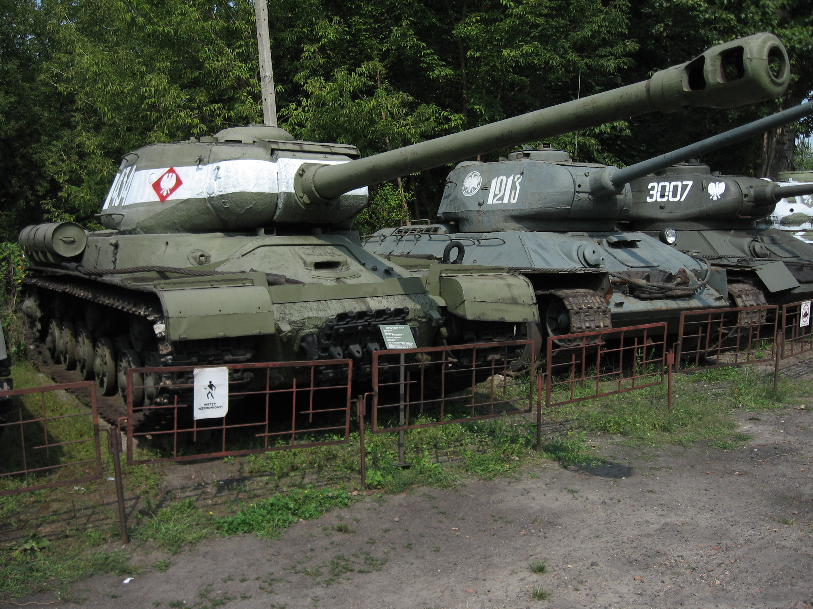 IS-2m heavy tank at the Muzeum Polskiej Techniki Wojskowej in Warsaw.